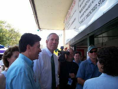 John Faso, 2006 candidate for NY Governor and current Governor George Pataki, attend the NY State Fair Taken on Motorola Razr V3r